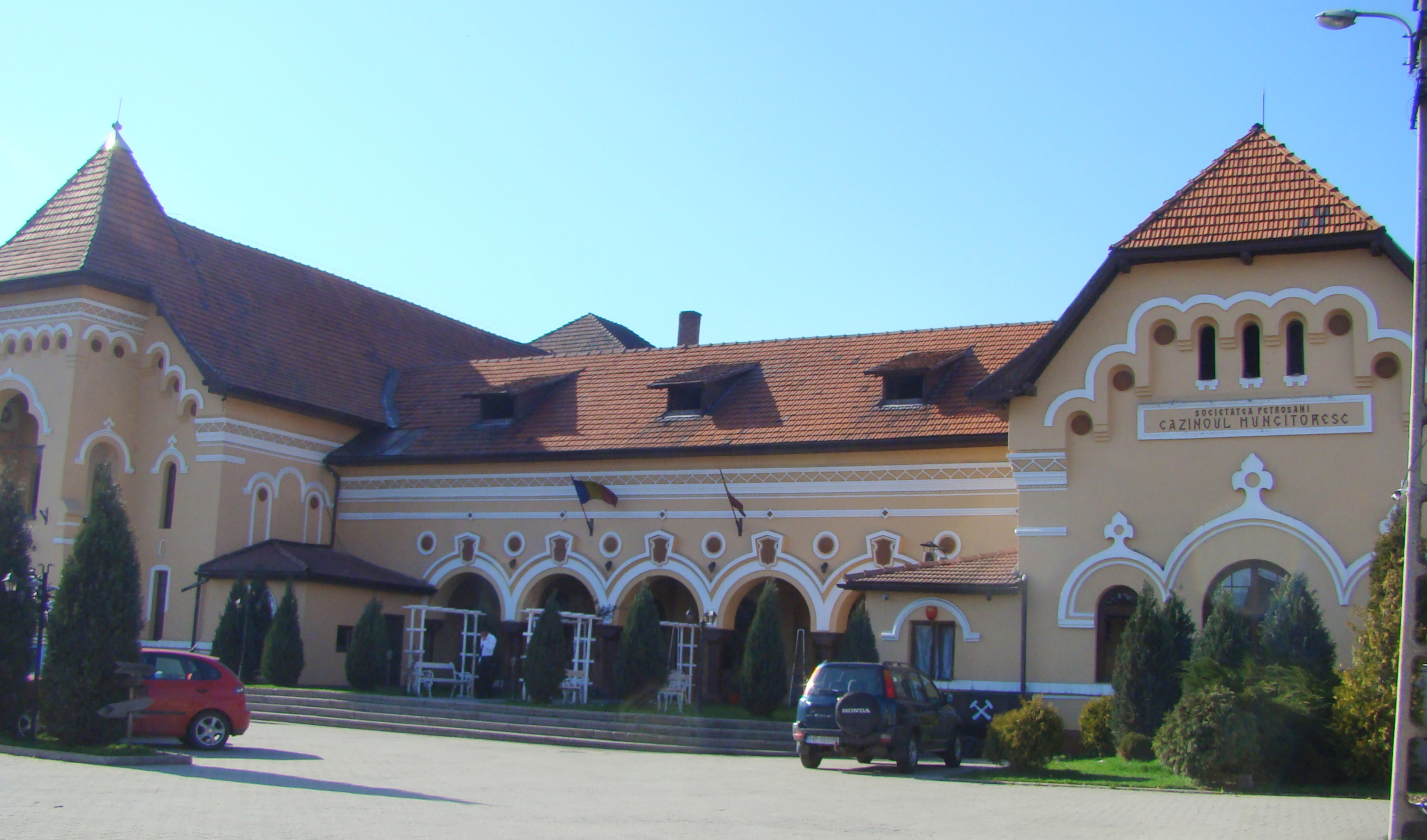 Workers’ Casino in Petroşani, Hunedoara county, Romania